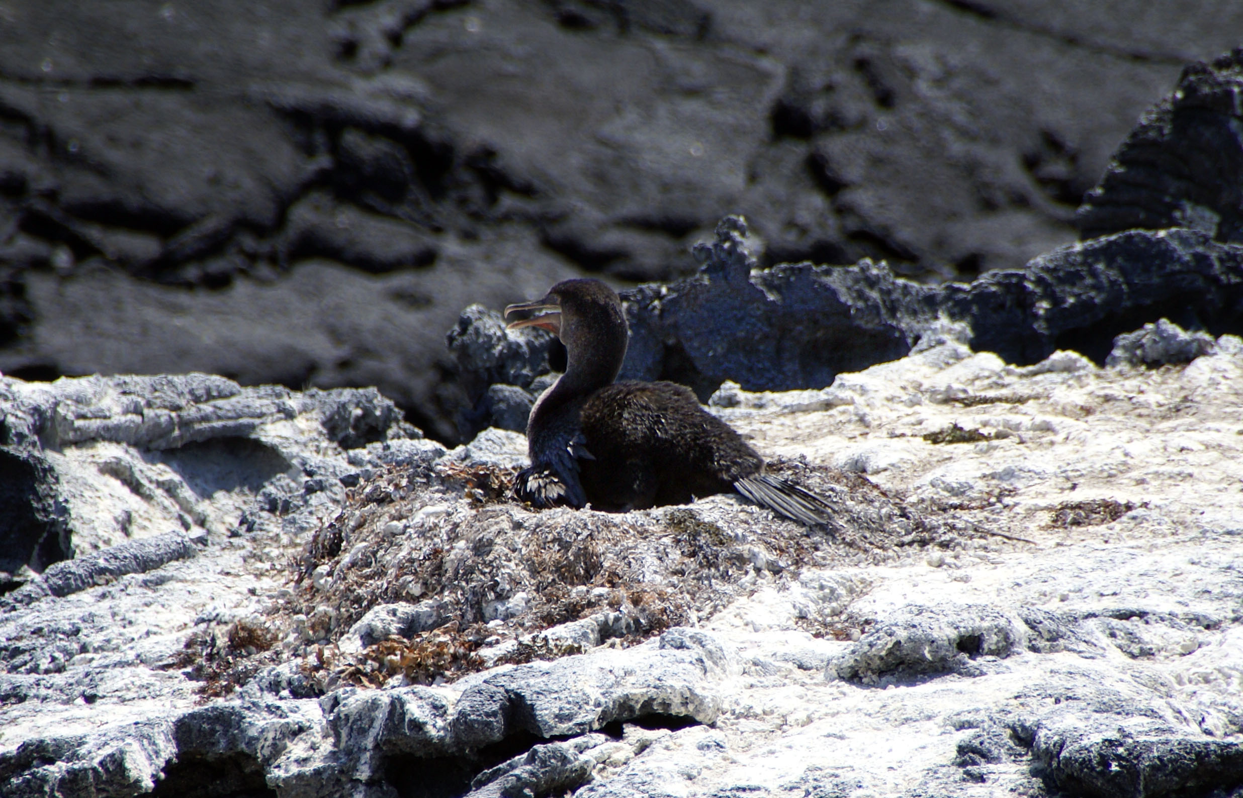 Flightless Cormorant (Phalacrocorax harrisi), also known as the Galapagos Cormorant, on a nest. Fernandina Punta Espinosa